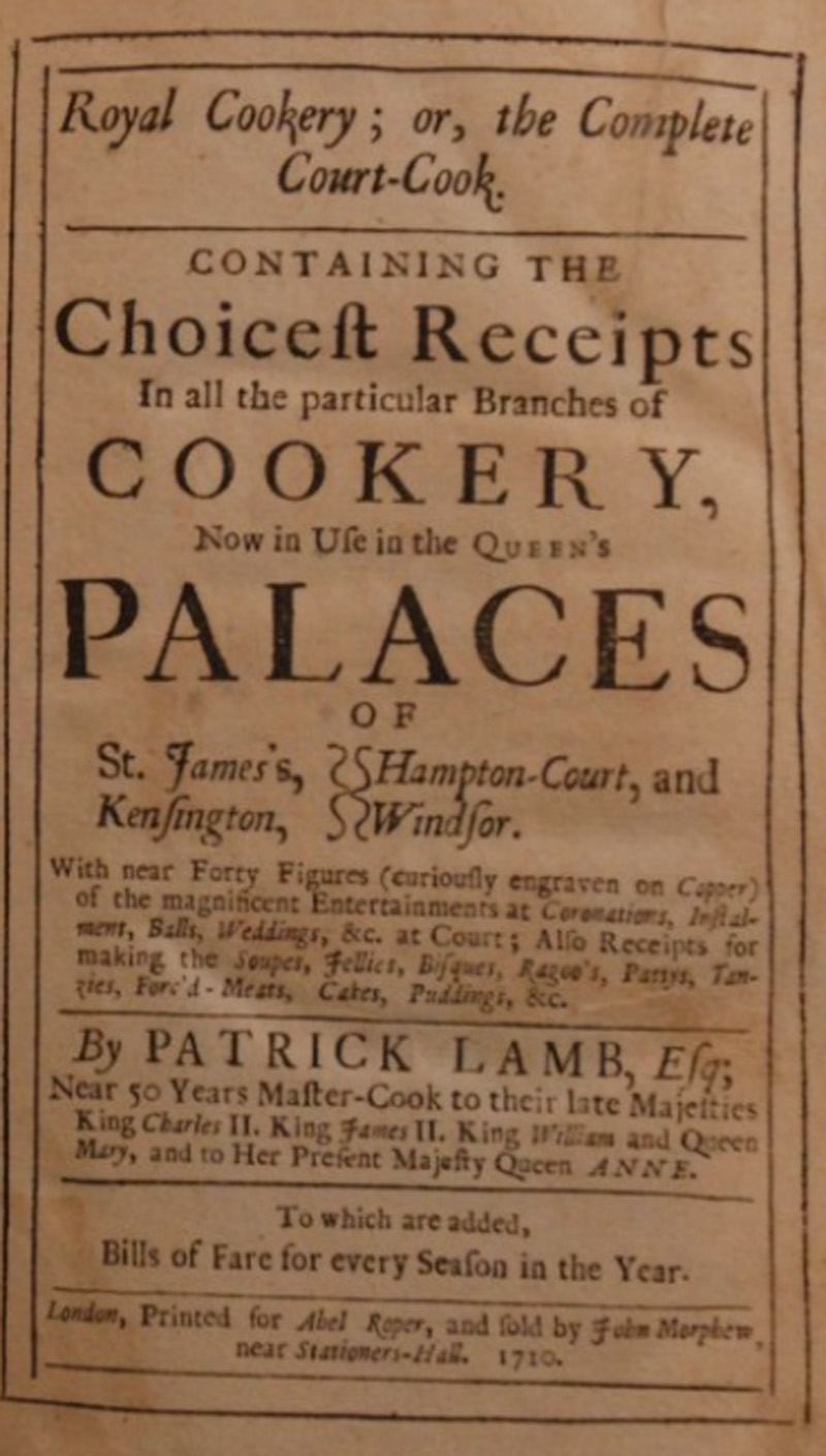 Front page of the cookbook "Royal Cookery" by Patrick Lamb who was Master Cook to several Kings and Queens